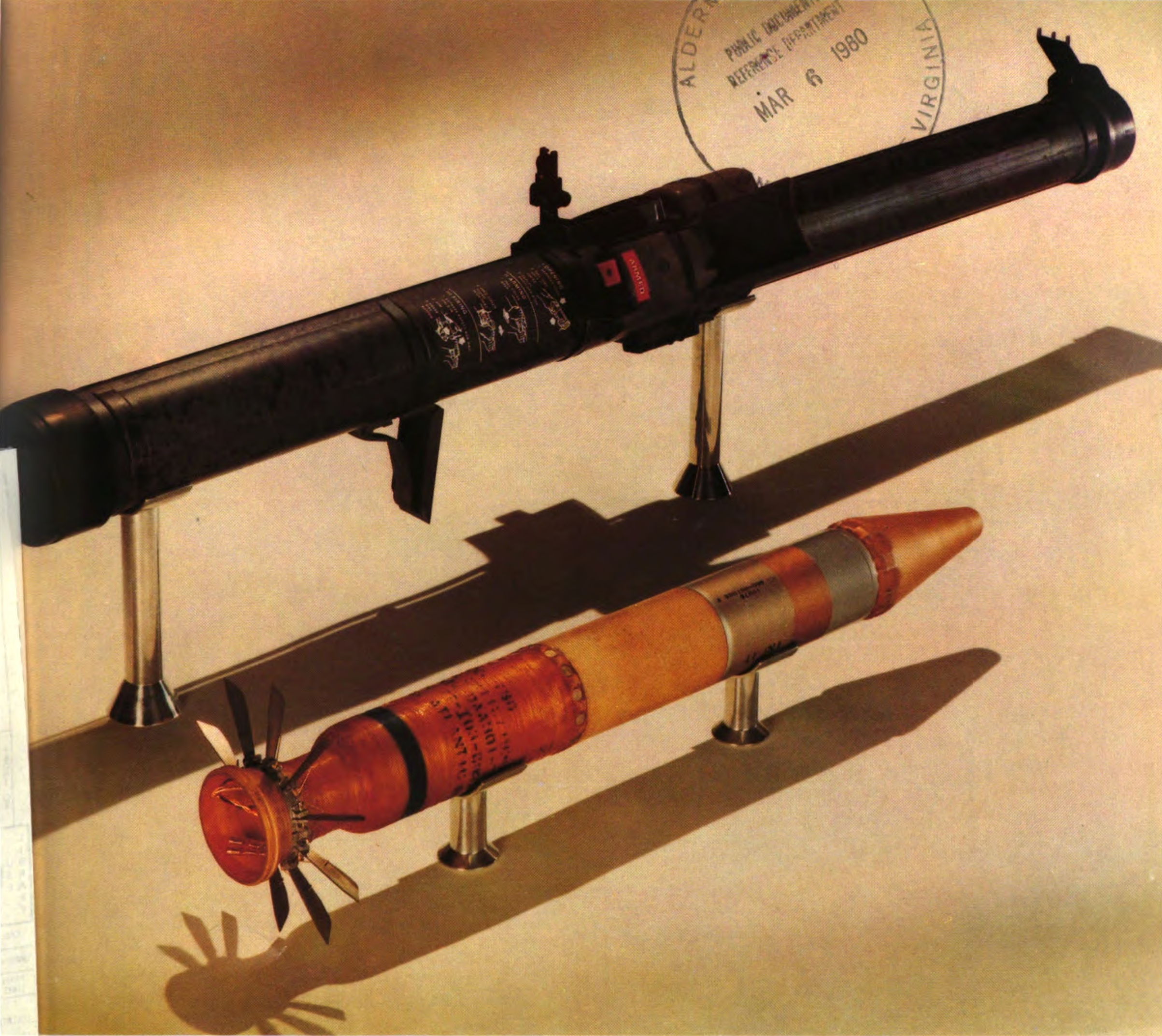 Viper antitank weapon XM132 armed (top) with 70mm HEAT rocket (bottom.)